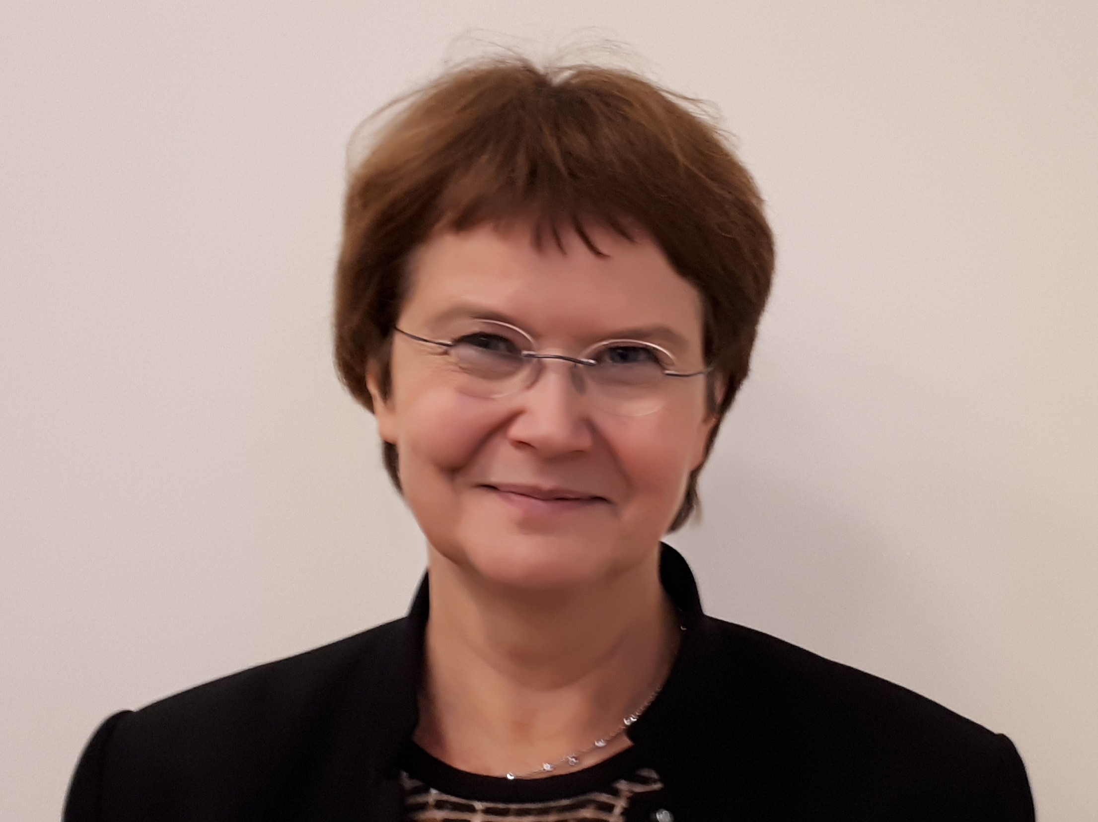 Tuula Teeri, as of November 2017 manager of the Royal Swedish Academy of Engineering Sciences